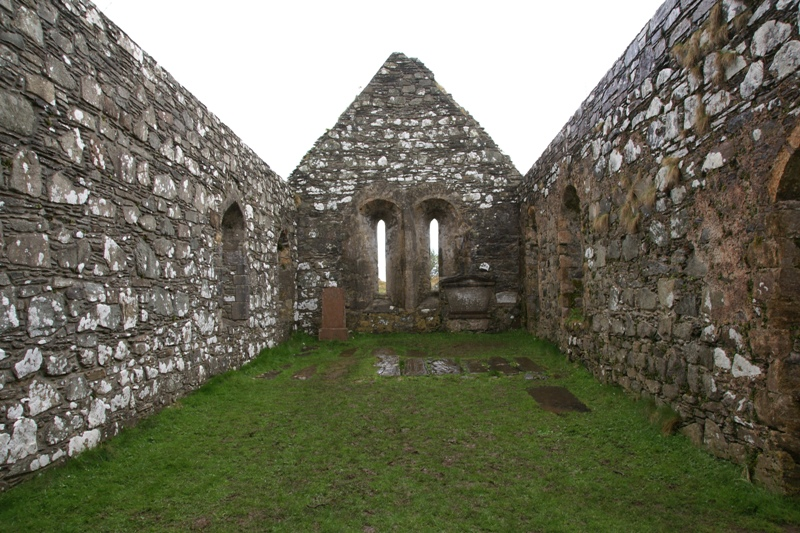 Kildalton Church, Kildalton, Islay, Argyll and Bute, Scotland. Interior looking east.